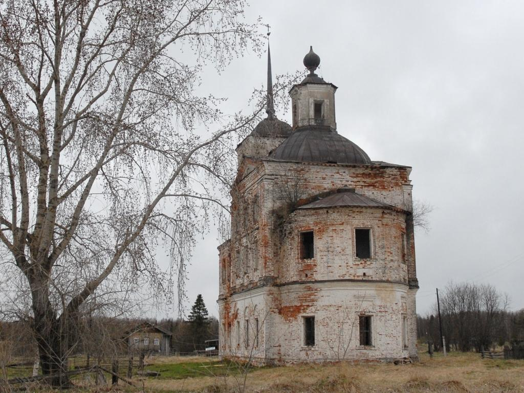 The Resurrection Church in the village of Urdoma, Lensky District, Arkhangelsk Oblast, Russia